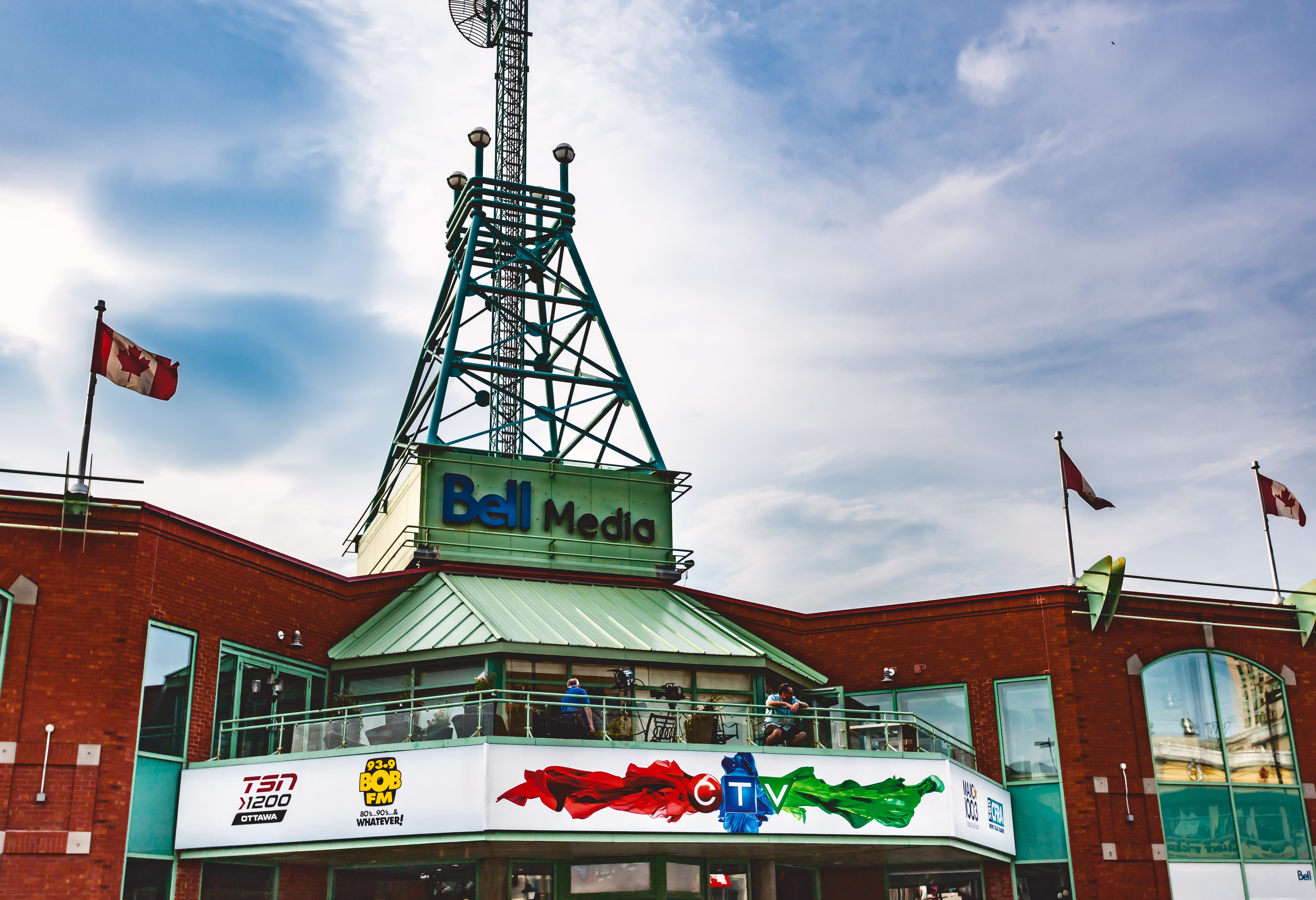 CTV Antenna. ByWard Market (sometimes called By Ward Market, Byward Market or simply The Market, MarchÃ© By in French) is a district in Lower Town (Ottawa, Ontario) located east of the government and business district, surrounding the market buildings and open-air market on George, York, ByWard and William Streets.